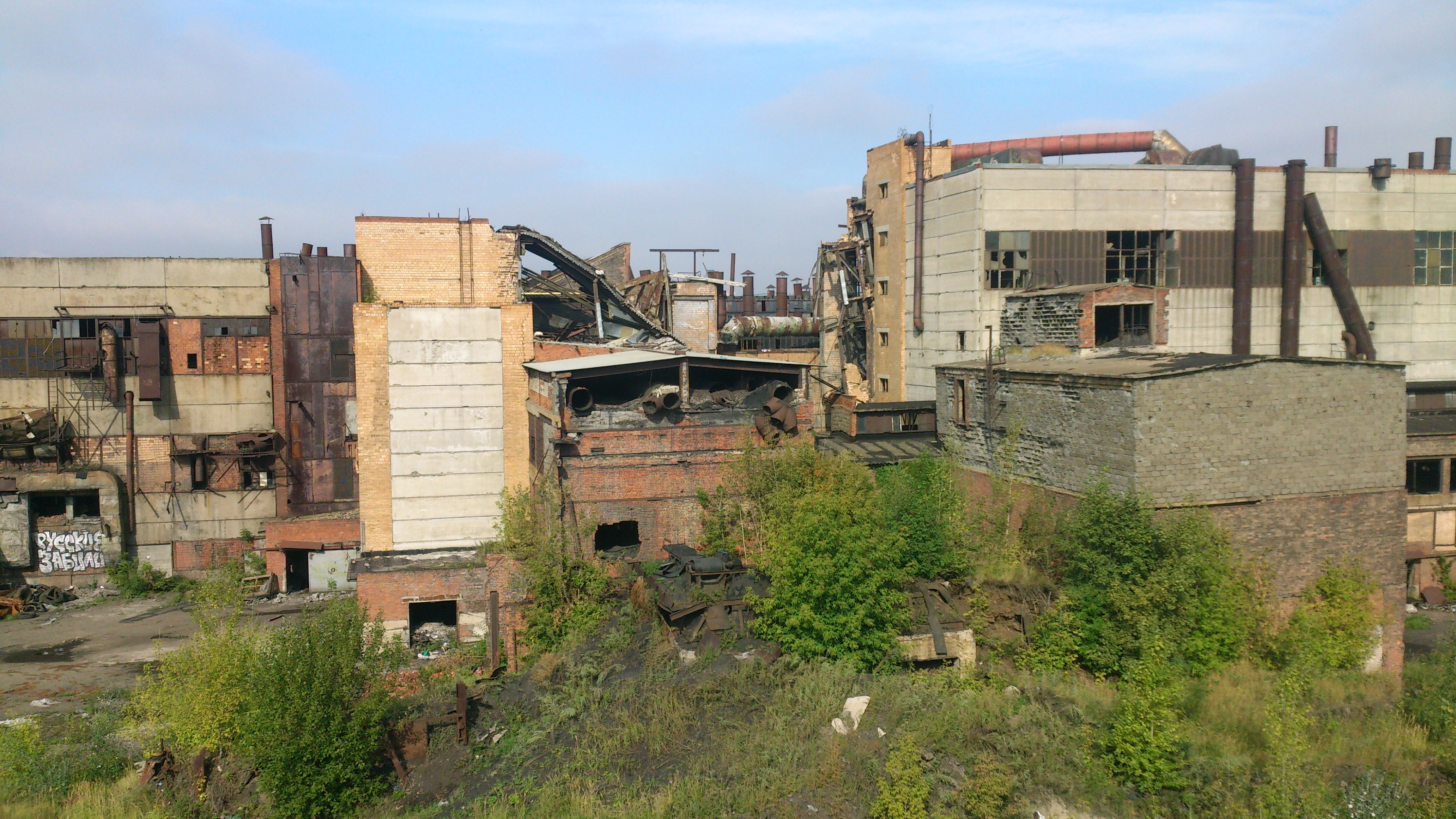 Abandoned ZIL factory, Moscow